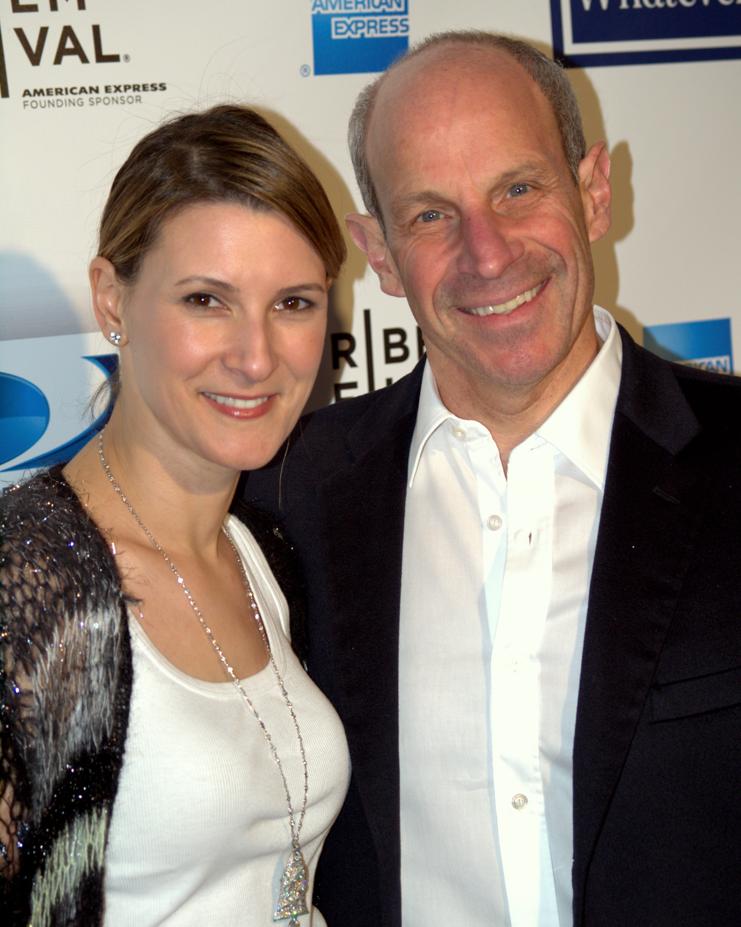 Lizzie Tisch and husband Jonathan Tisch at the 2009 Tribeca Film Festival premiere of Woody Allen's Whatever Works.